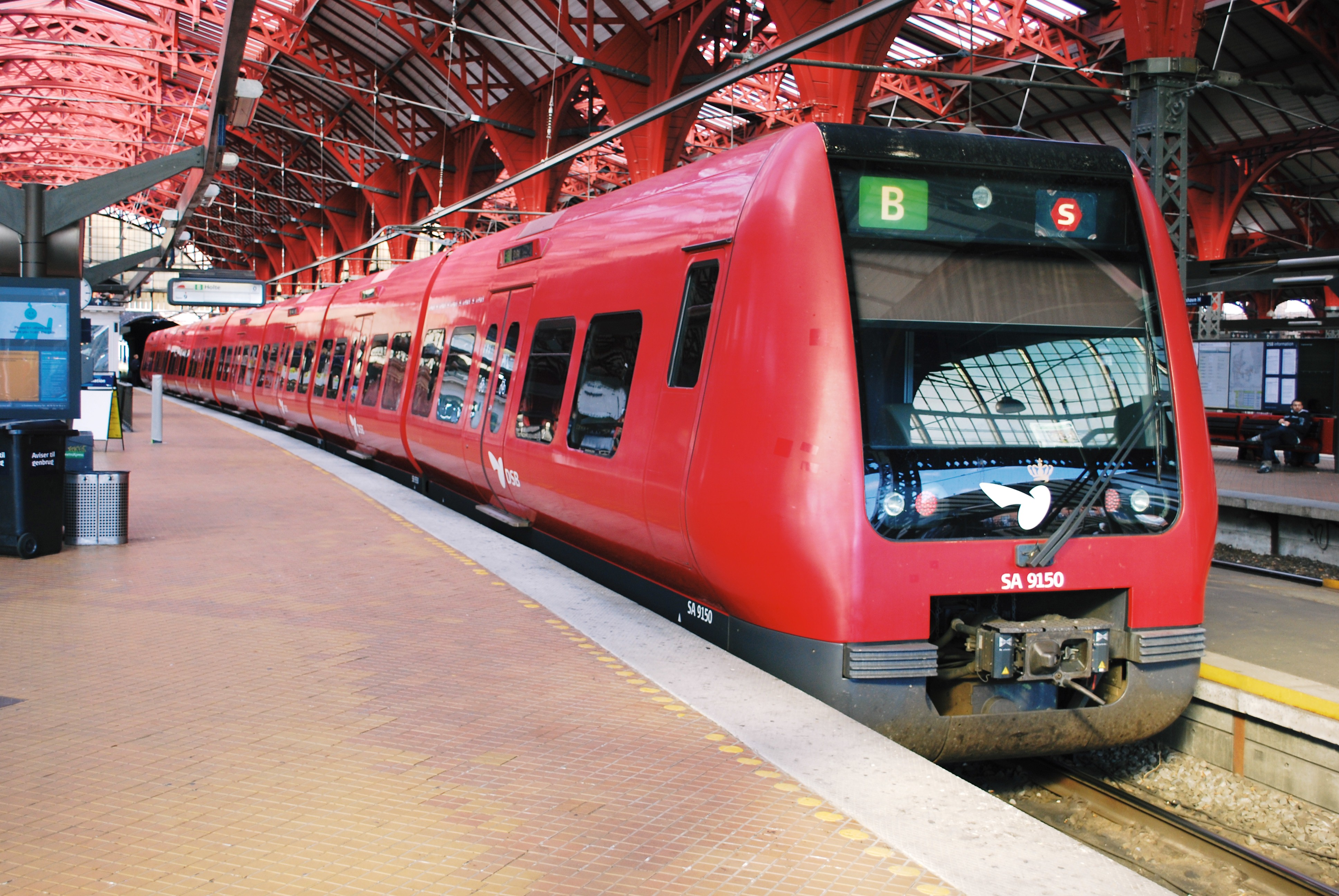 DSB Alstom-LHB/Siemens S-Train 1.5 kV DC 8-car articulated emu No.9150 for S-TOG inner suburban services at Kobenhavn on a B-line service, 9/10.